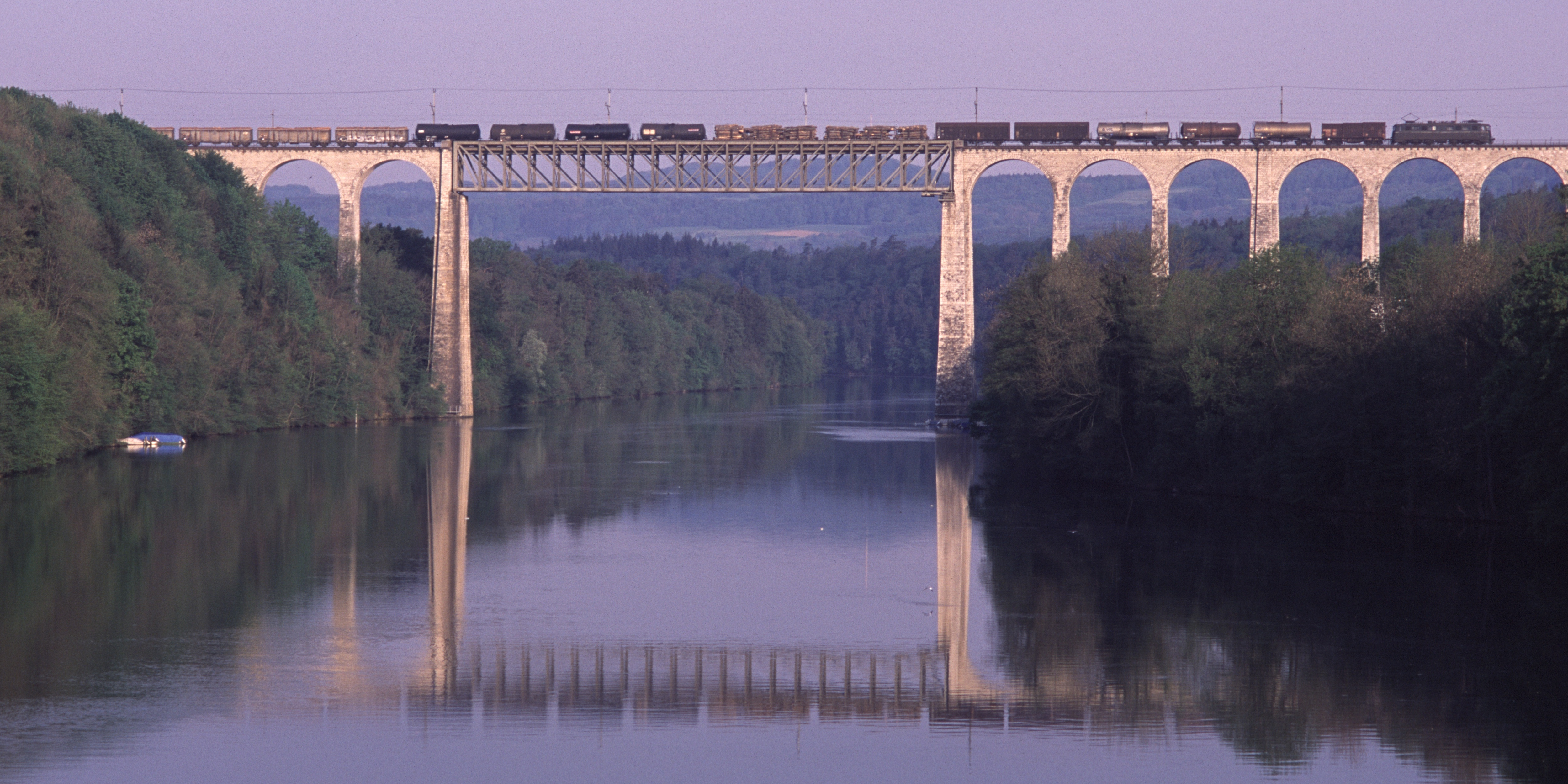 SBB Ae 6/6 with Freight Train on the Rhein Bridge at Eglisau, Switzerland